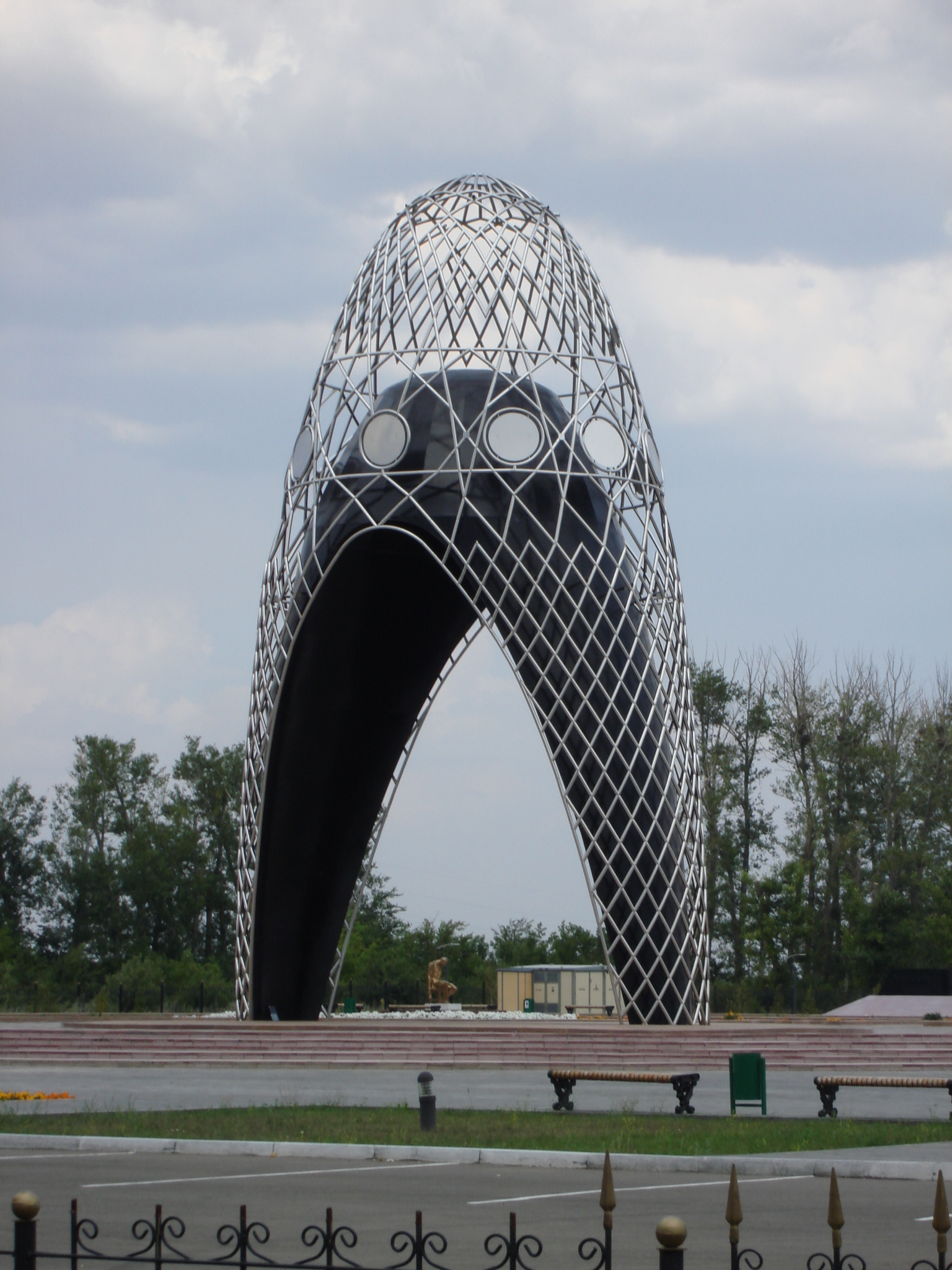 Monument for commemorating the victims of a political repression and the totalitarianism. Part of a memorial and a museum in the village Akmol.